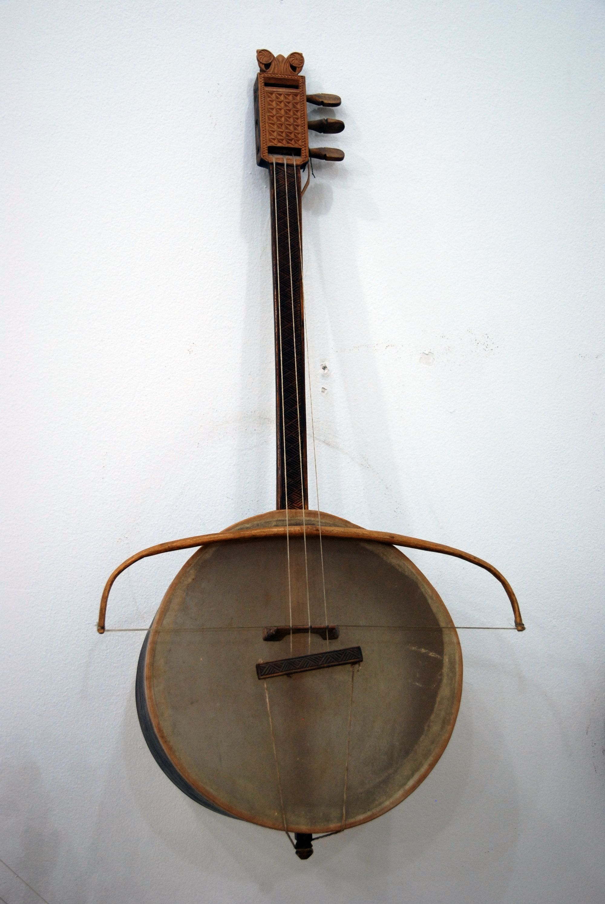 Chuniri, State Museum of Georgian Folk Songs and Musical Instruments, Tbilisi